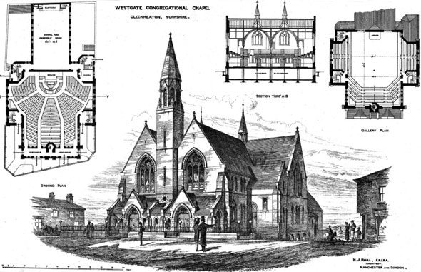 1876 drawing and plans by architect Henry John Paull, showing Cleckheaton Westgate Congregational Church, Cleckheaton, West Yorkshire, England. It still existed in 2012, by which time the spire and upper level had been removed: shown here.